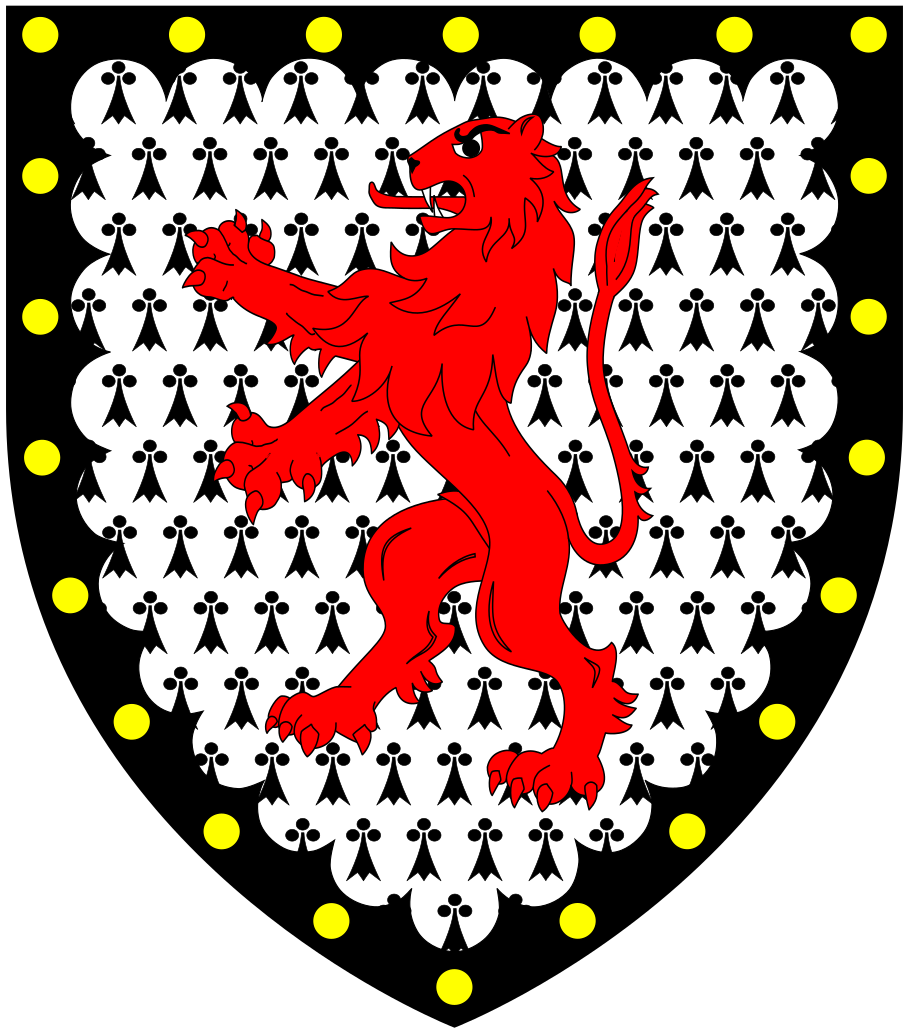 Arms of Sir Jeffrey Cornwall of King's Nympton, Devon: Ermine, a lion rampant (gules) a bordure engrailed sable bezantée (Pole, Sir William (d.1635), Collections Towards a Description of the County of Devon, Sir John-William de la Pole (ed.), London, 1791, p.460, with tincture of lion unspecified thus presumed sable, an unusual tincture for a field ermine, thus shown here gules, as in arms of de Cornwall, Earl of Cornwall). Thgese are the arms of Richard, 1st Earl of Cornwall (1209-1272) with difference a bordure engrailed[1] and field ermine.